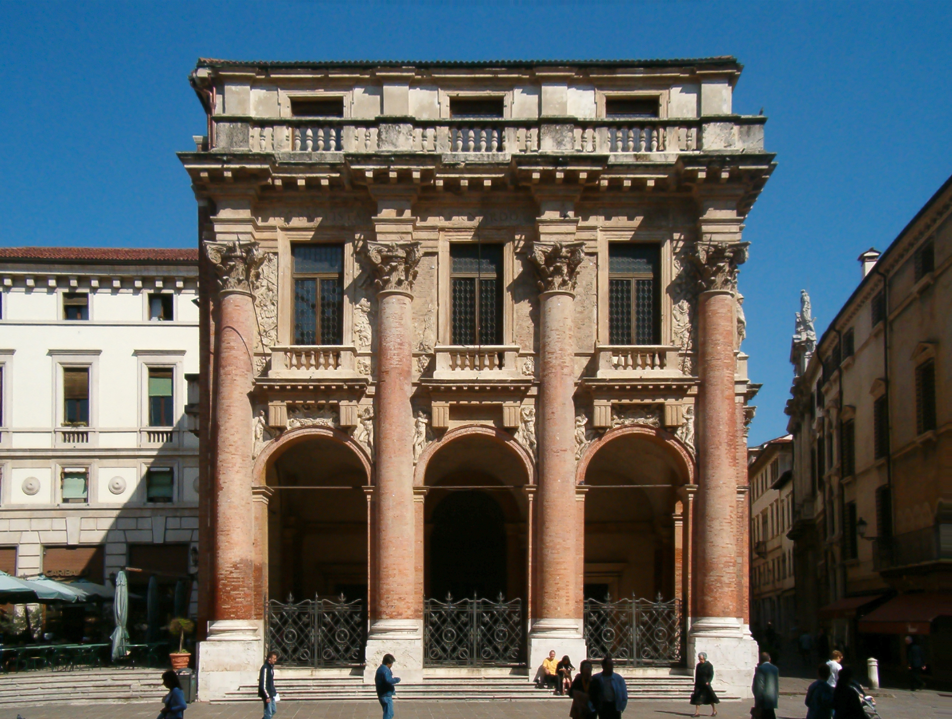 Palazzo del Capitanio in Vicenza. Arch. Andrea Palladio (1565)